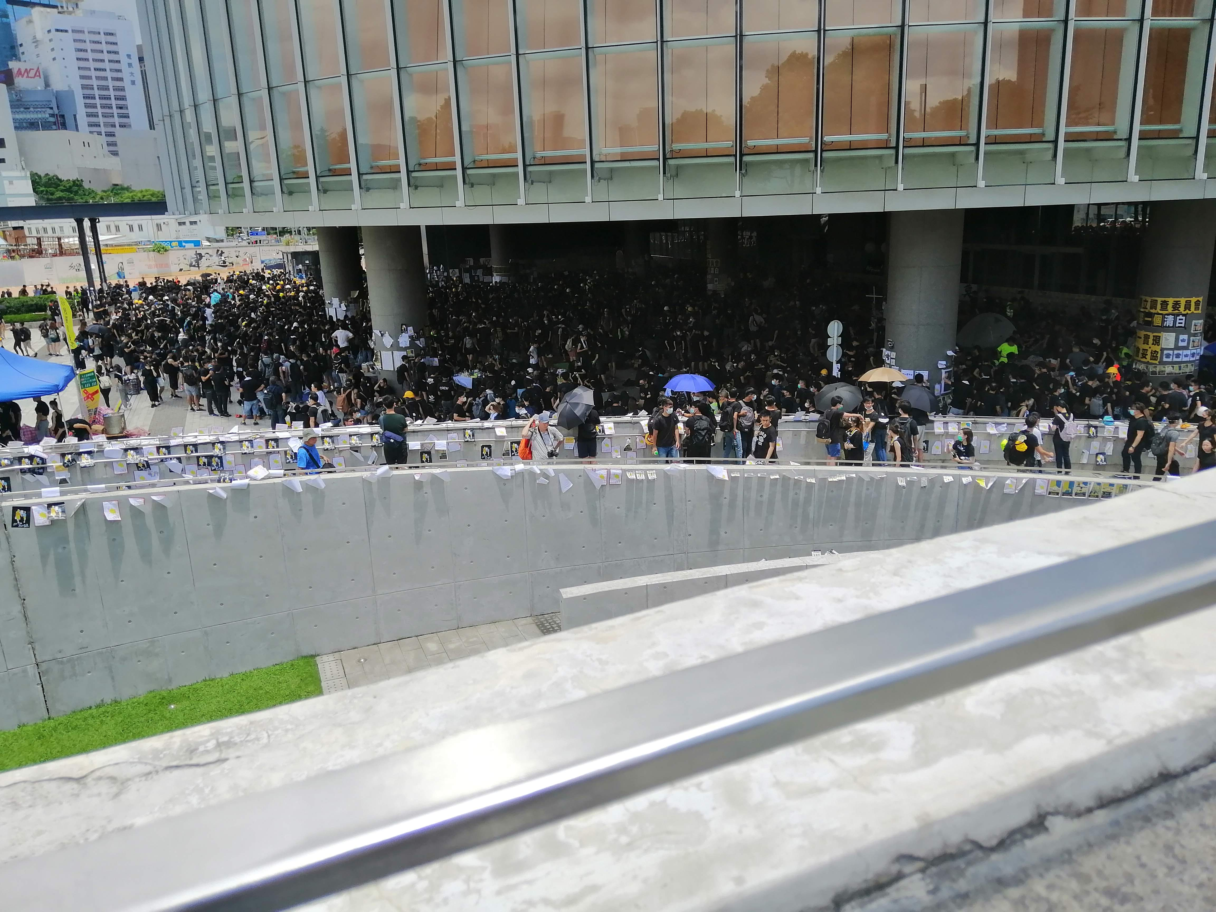 Photos taken on 1 July 2019, the anti-gov protest day